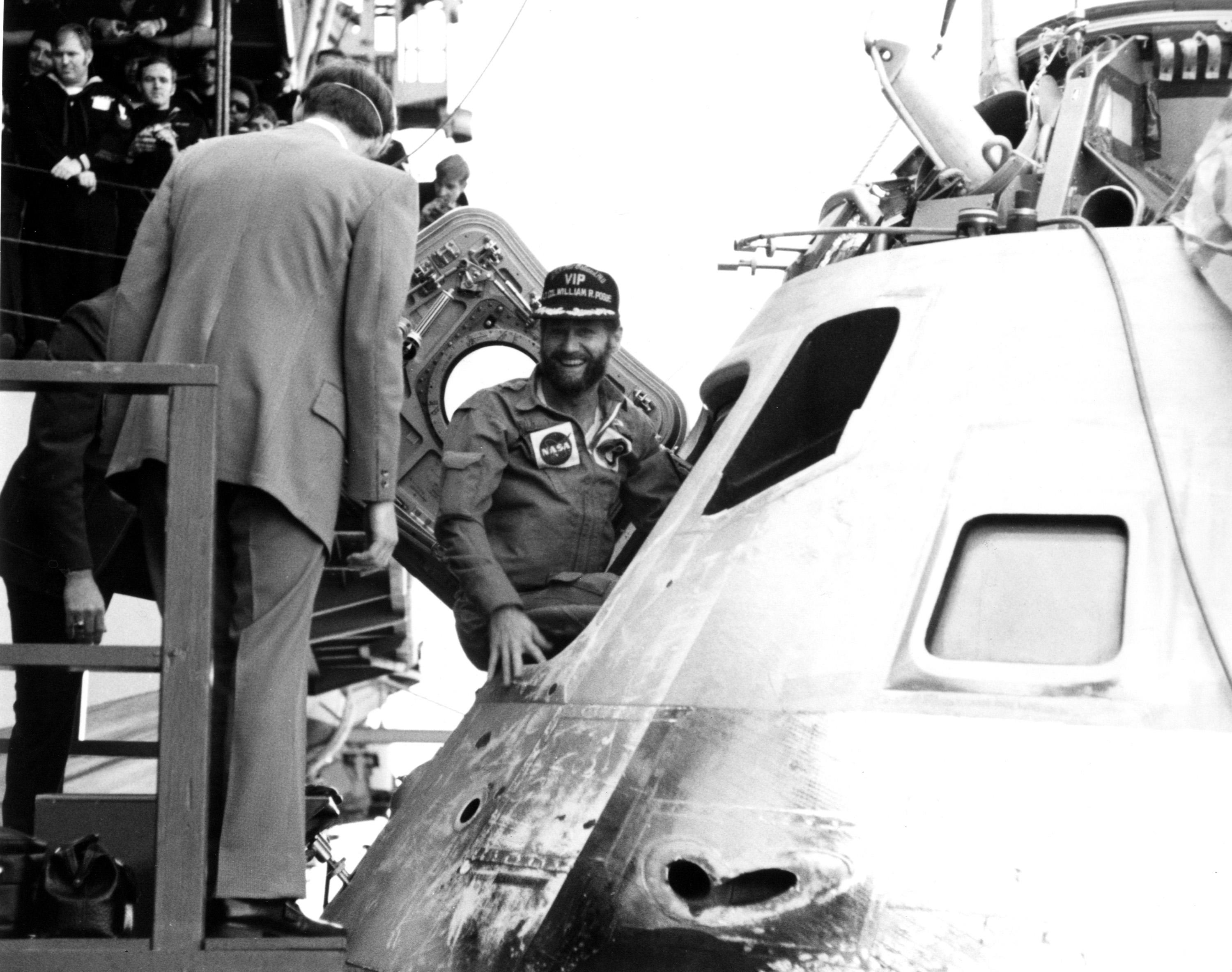 Astronaut William R. Pogue pauses in hatchway of Skylab 4 command module during recovery activities aboard the USS New Orleans.